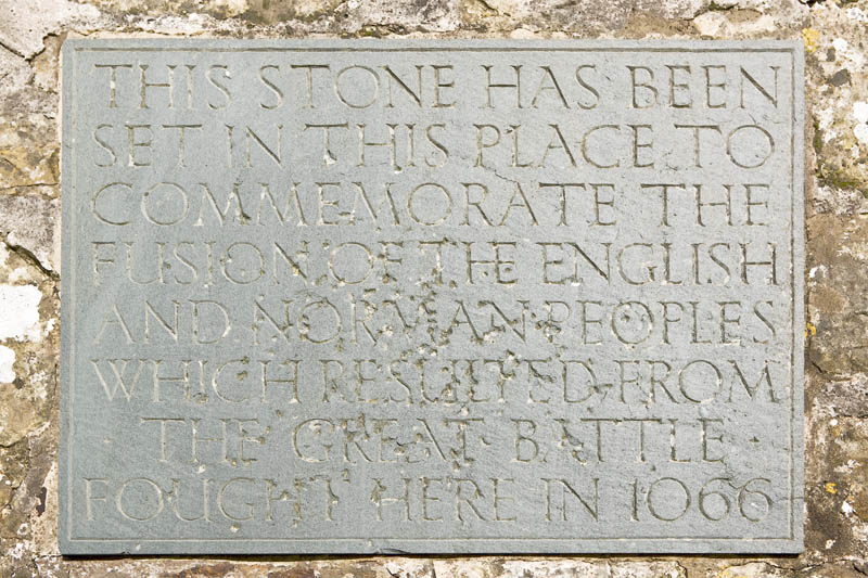 Author: Antony McCallum Plaque at Battle Abbey commemorating the fusing of the Anglo-Saxon and Norman peoples